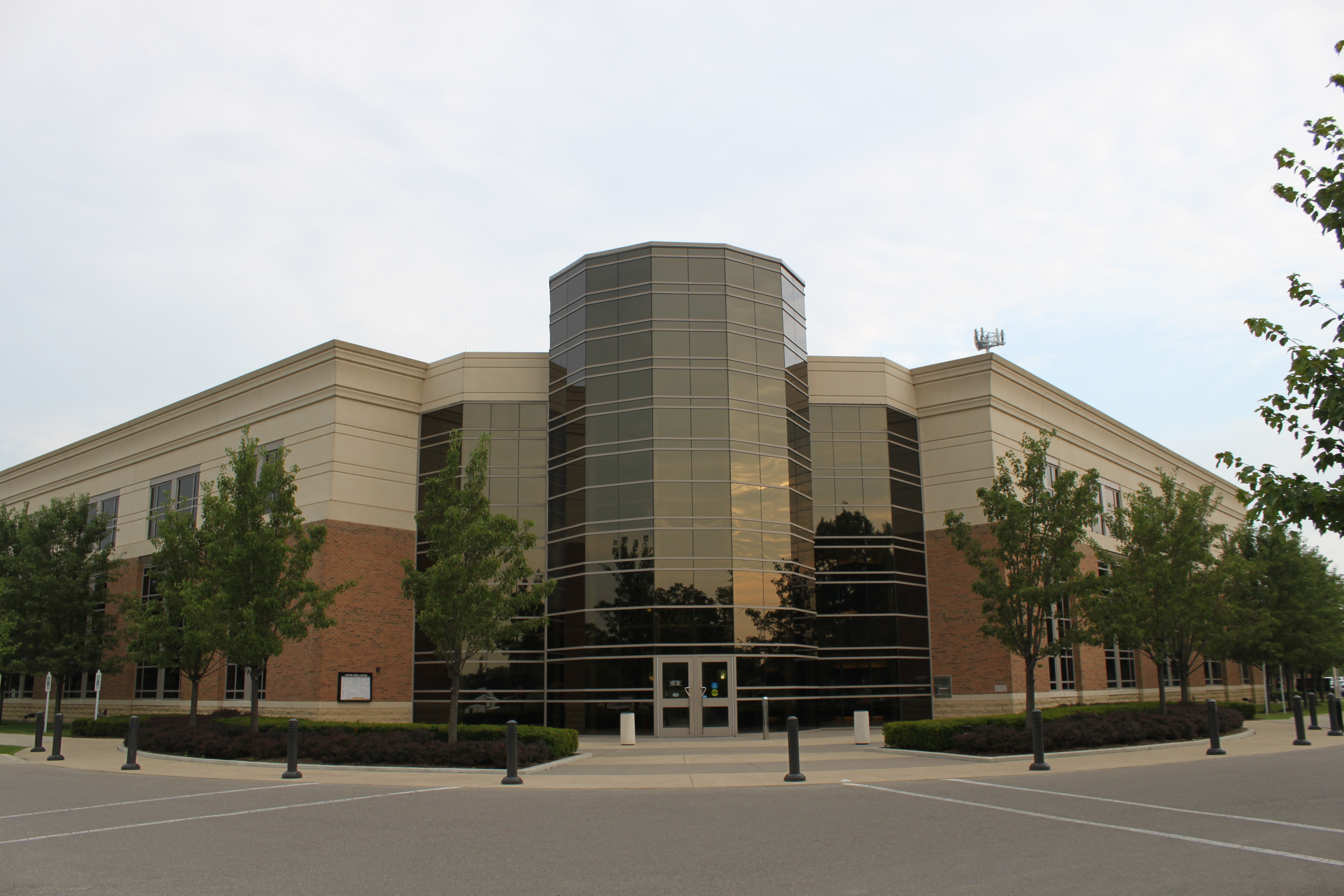 Canton Township Michigan, Canton Municipal Complex, 1150 Canton Center Road